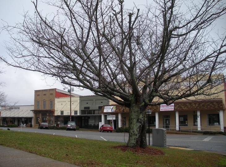 This is a picture of Dadeville, Alabama